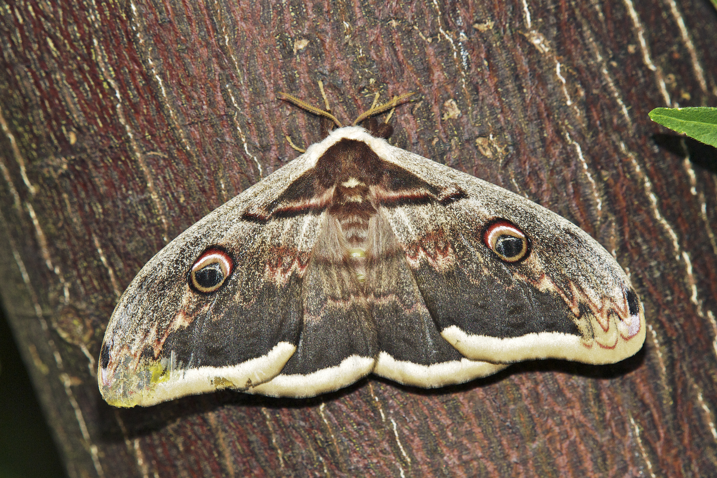 Giant Peacock Moth (Saturnia pyri), Botanical Garden Chemnitz, Germany